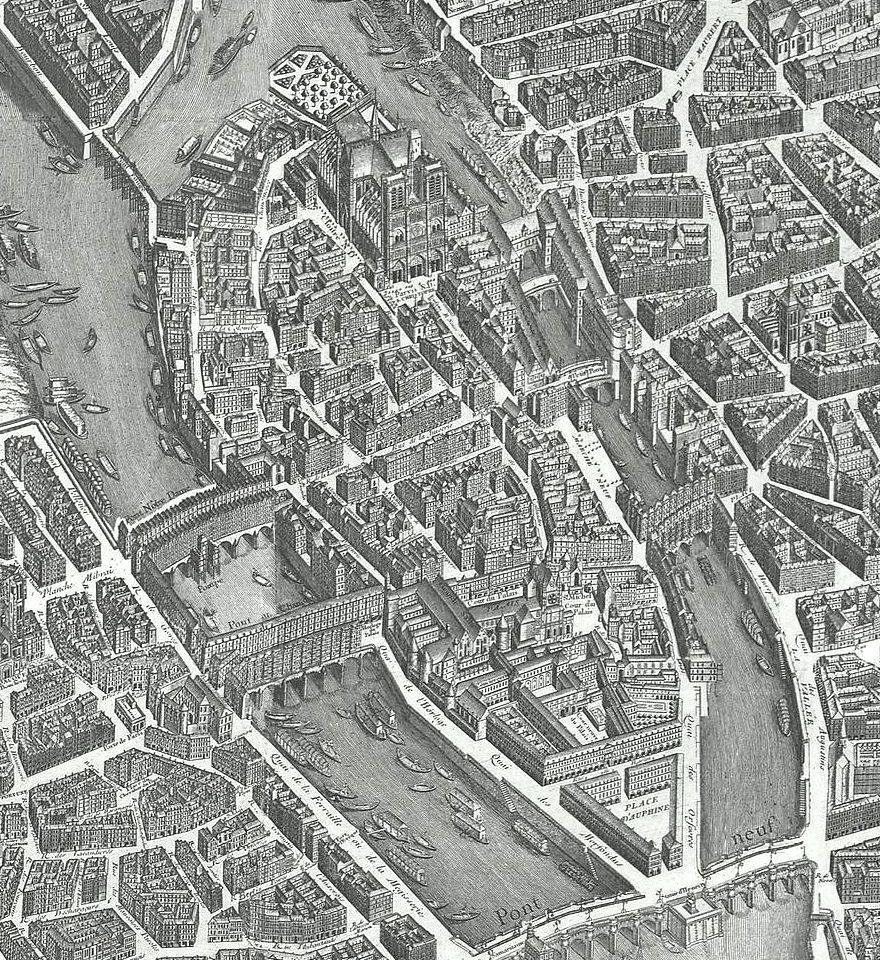 Map of Paris called "Plan de Turgot" (Île de la Cité)